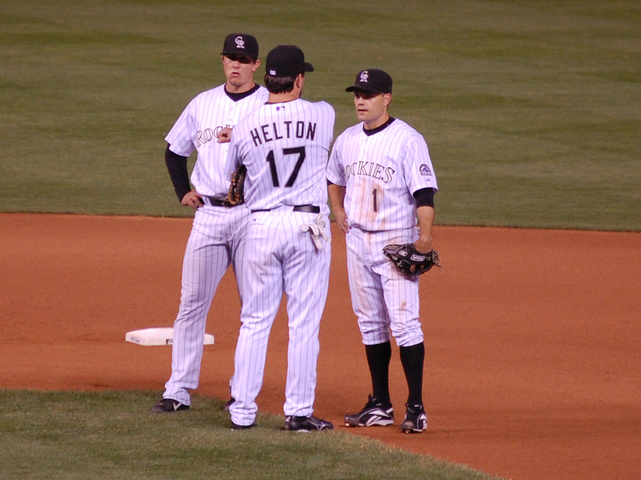 own work, gfdl 14:28, 30 June 2007 . . Onetwo1 . . 1280×960 (349,006 bytes)